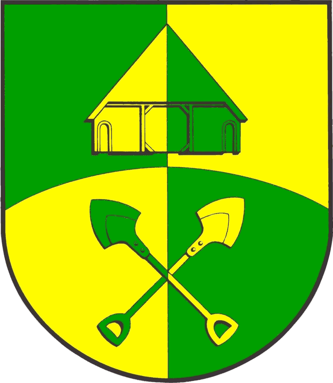 Coat of arms of the municipality Börm in Schleswig-Holstein, Germany.